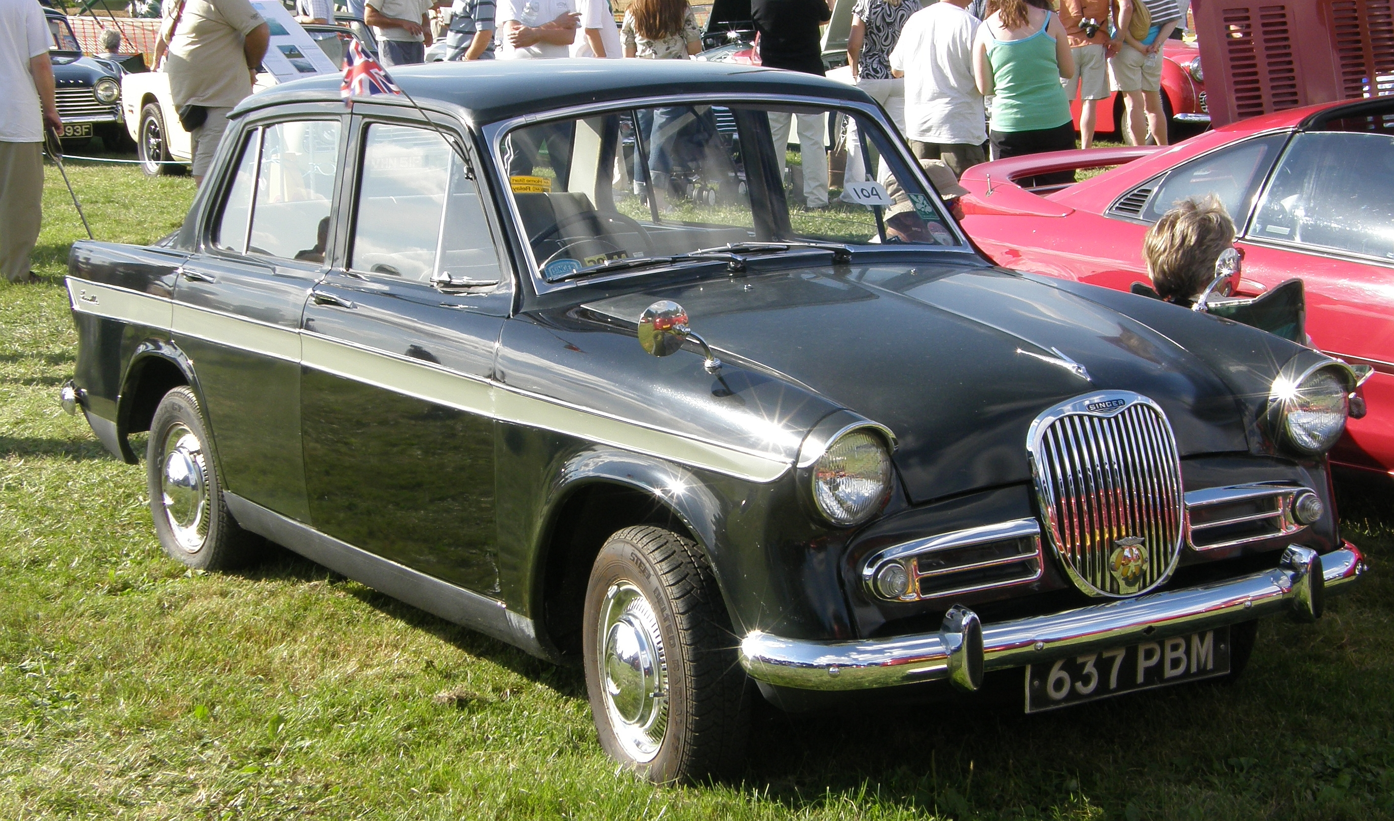 Singer Gazelle V of 1964. Original description - We went on to a mk 2 Gazelle (1725 rather than 1600cc engine, mild re-style), which coincidentally was in the same colour scheme as this one... According to the DVLC database (UK government database) this car was first registered August 1964 and had an engine displacement of 1592cc. Also, the car in this picture has no wraparound rear window. Both the styling details and the date of first registration confirm my own memory (yes I am so old) that this is a Singer Gazelle Mk V (sopme folks say Series V). It is not and never has been a Singer Gazelle Mk I. I am sorry to gainsay the identity confered by the photographer who evidently remembers the car with affection. But I invite him (and anyone else not convinced) to read the English language wikipedia entry on the Singer Gazelle Mk V (Some folks say Series V).(No, it was NOT I who wrote it, as far as I remember). Wikipedia appears not to have a picture of a Singer Gazelle Mk I (some folks say Series I), but here is a picture of the Gazelle Mk III which has approximately the same wrap around rear window as the Series I (some folks say Mk I) but slightly different residual fins. And below is a picture of the Hillman Minx equivalent (different front from the Singer but otherwise same body) from before the change to the fins at the back. Same wrap-around back window - very expensive to produce with strong enough glass back then. Using the currently in wikipedia pictures, this is a s close to the Singer Gazelle Mk I (some folks say Series I) as it gets.